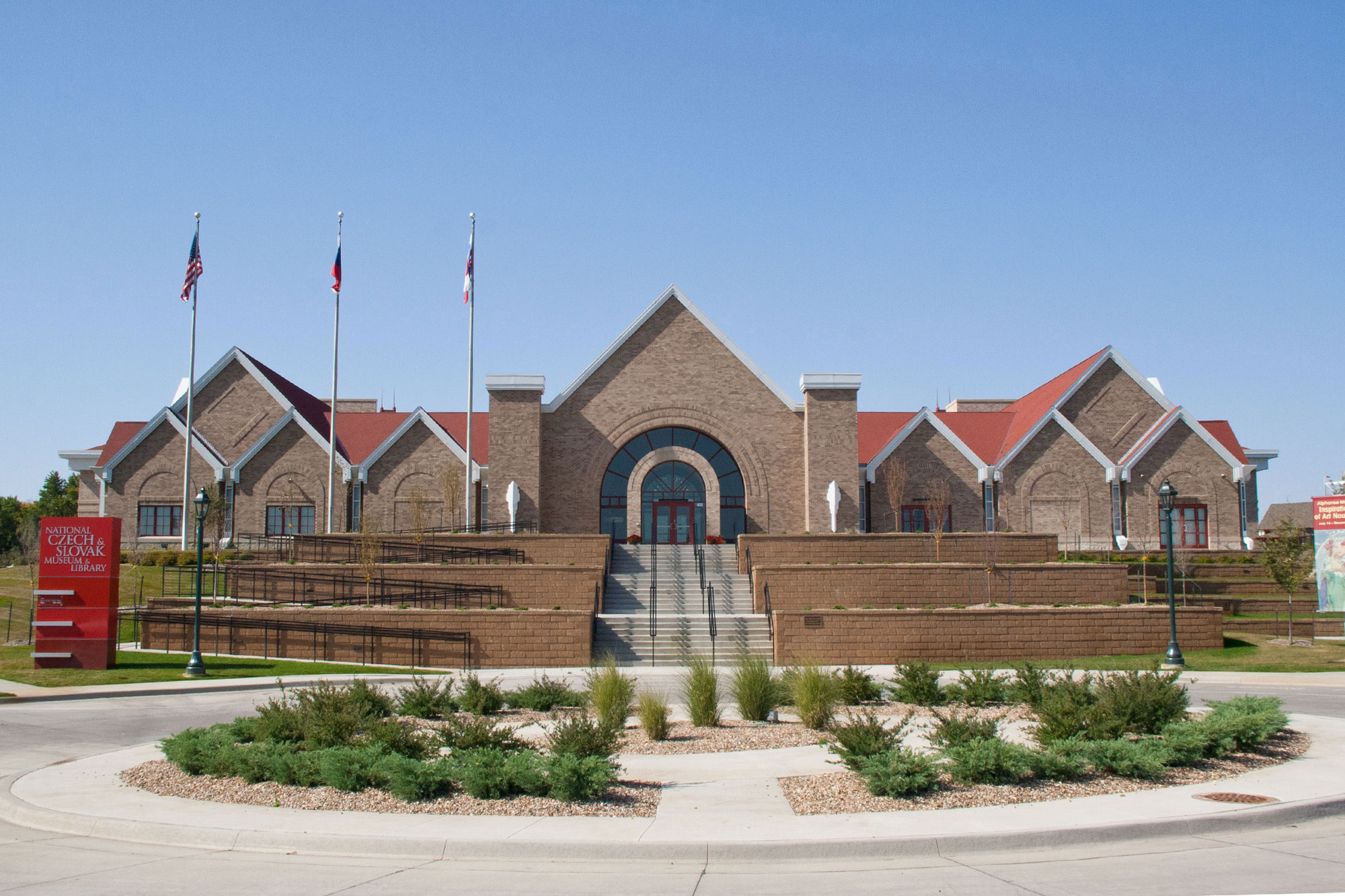 Bohemian Commercial Historic District